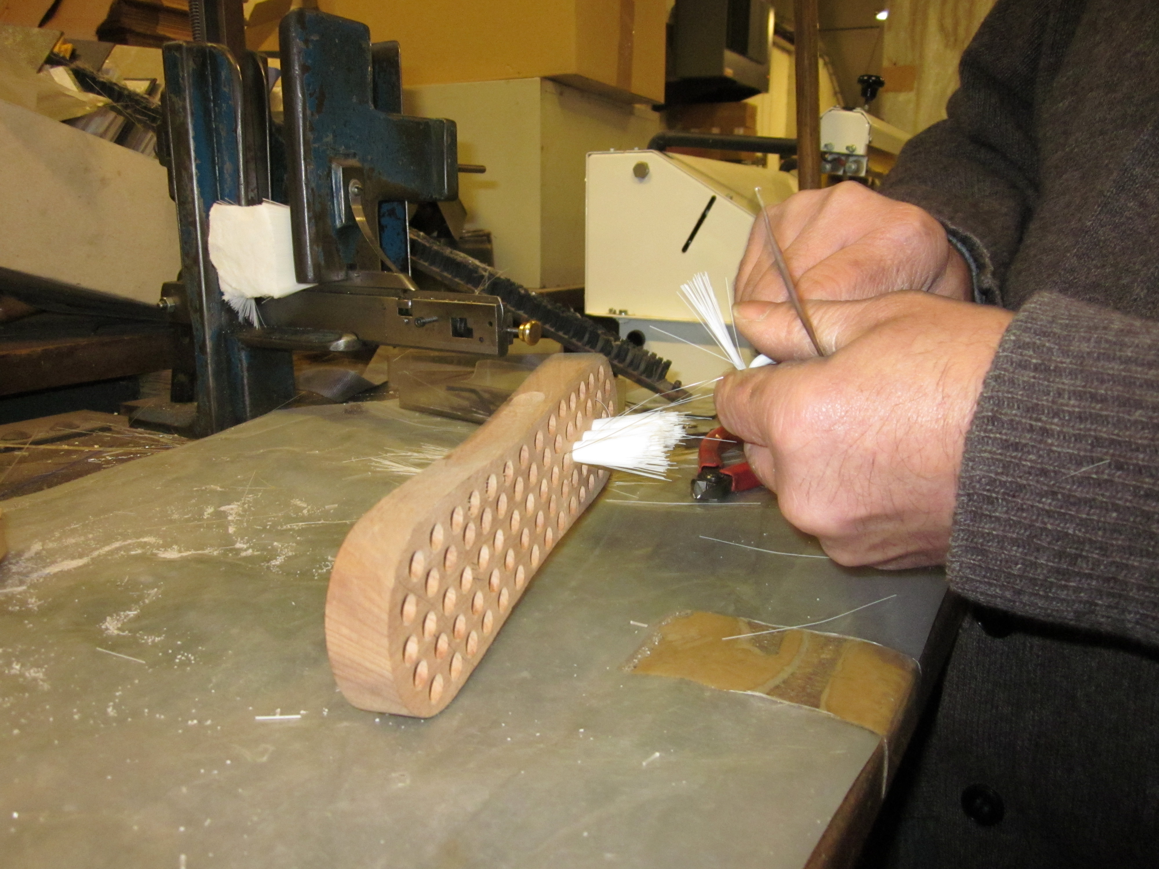 Handmade brush manufacturing (B2M - Pafloma brushmaker, France)